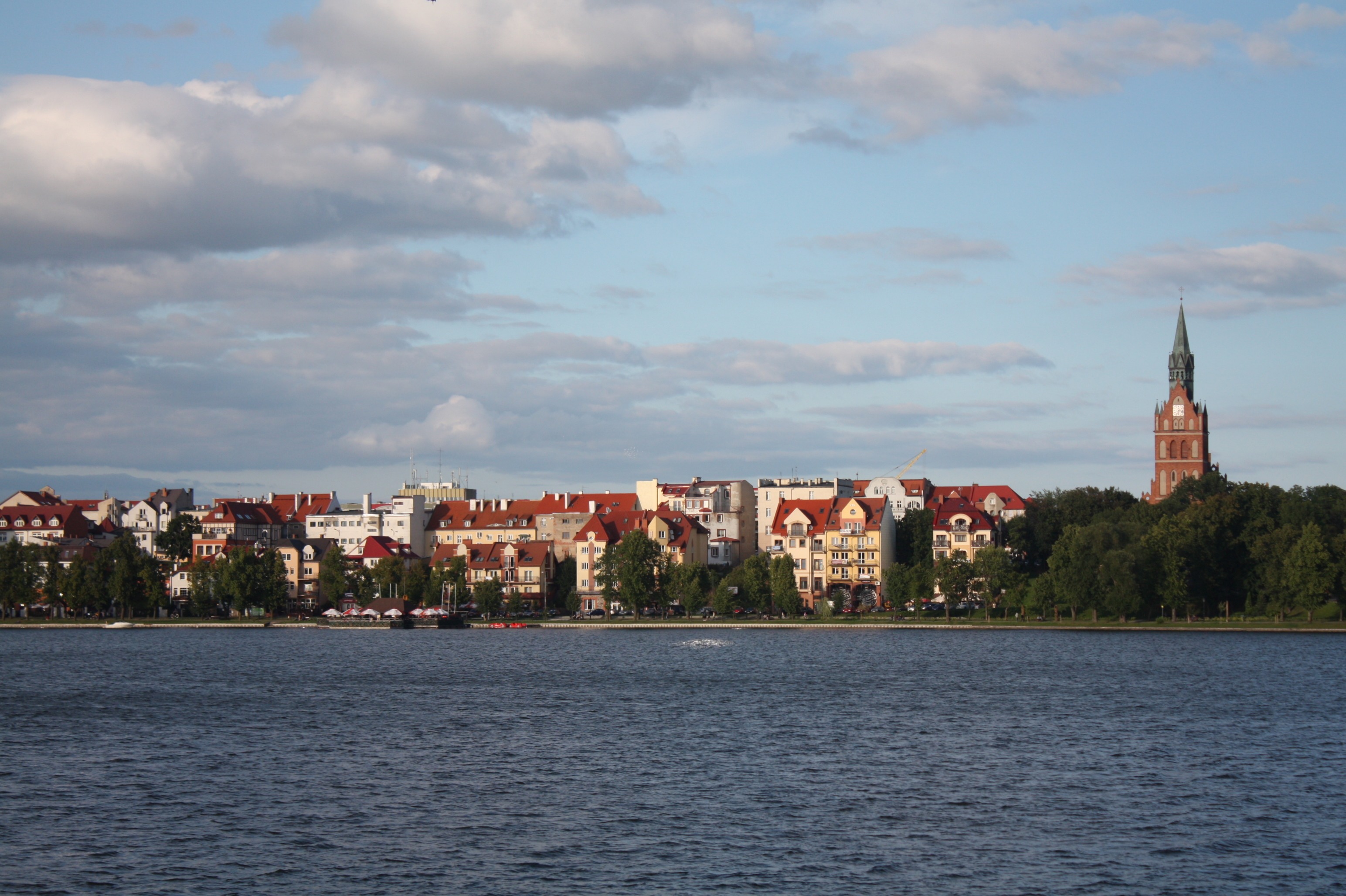 This photo of Warmian-Masurian Voivodeship was taken during Wikiexpedition 2012 set up by Wikimedia Polska Association. You can see all photographs in category Wikiekspedycja 2012. The making of this document was supported by Wikimedia Polska.